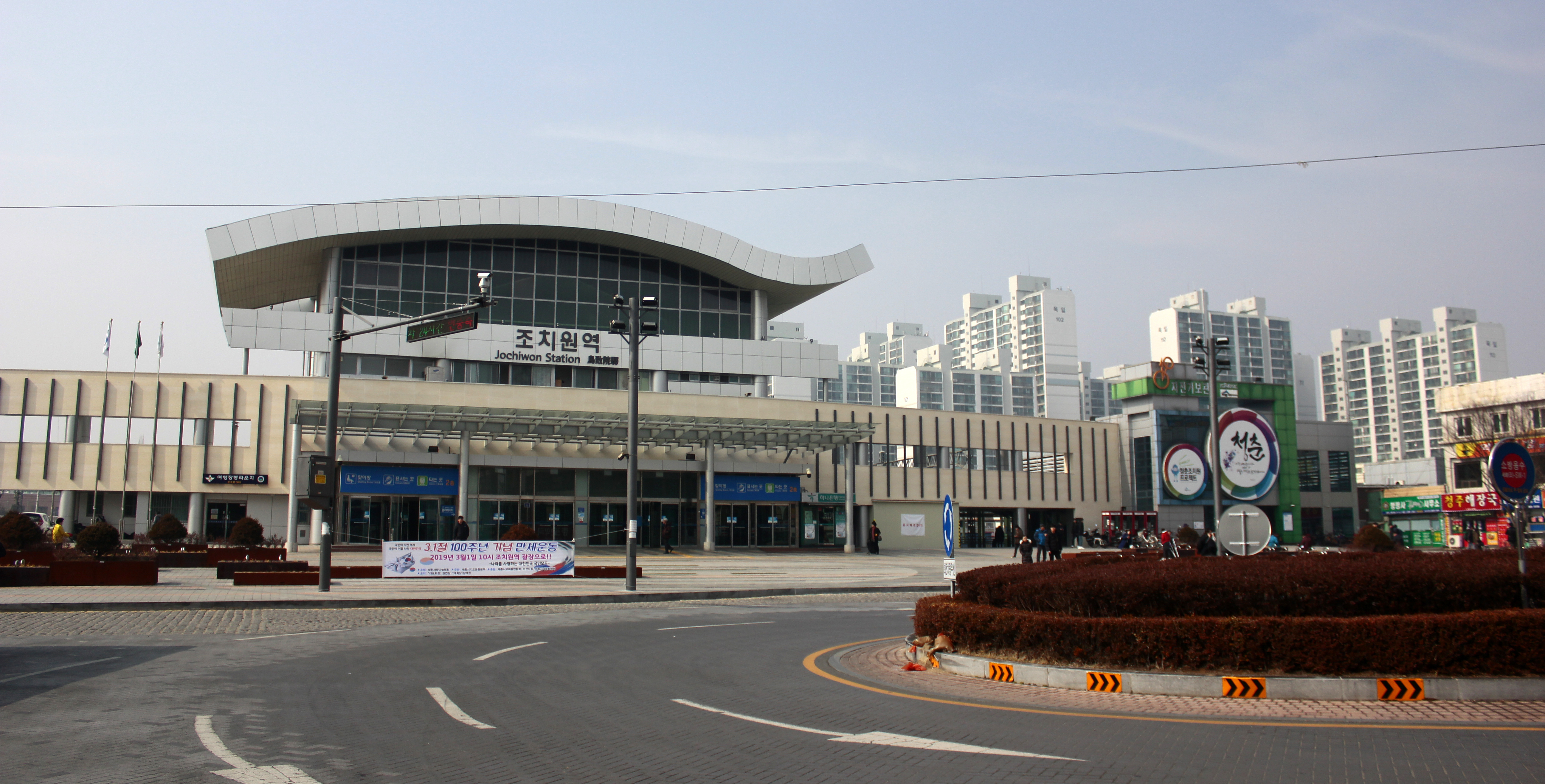 Jochiwon station, Yeongi-gun, South Korea